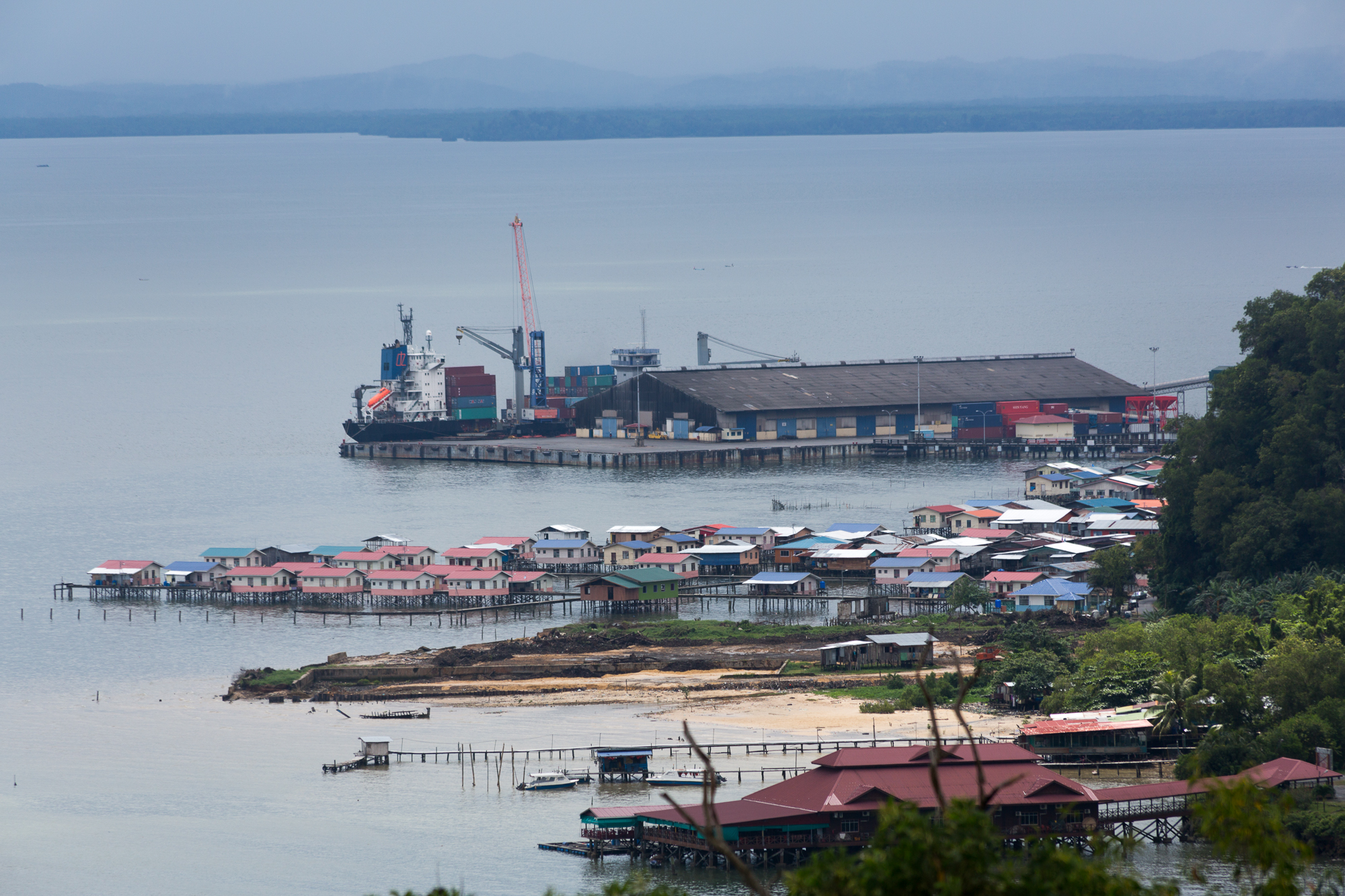 Sandakan, Sabah: Ocean King Seafood Restaurant, Kampung Air Bokara and part of Sandakan Port from Puu Jih Shih Temple